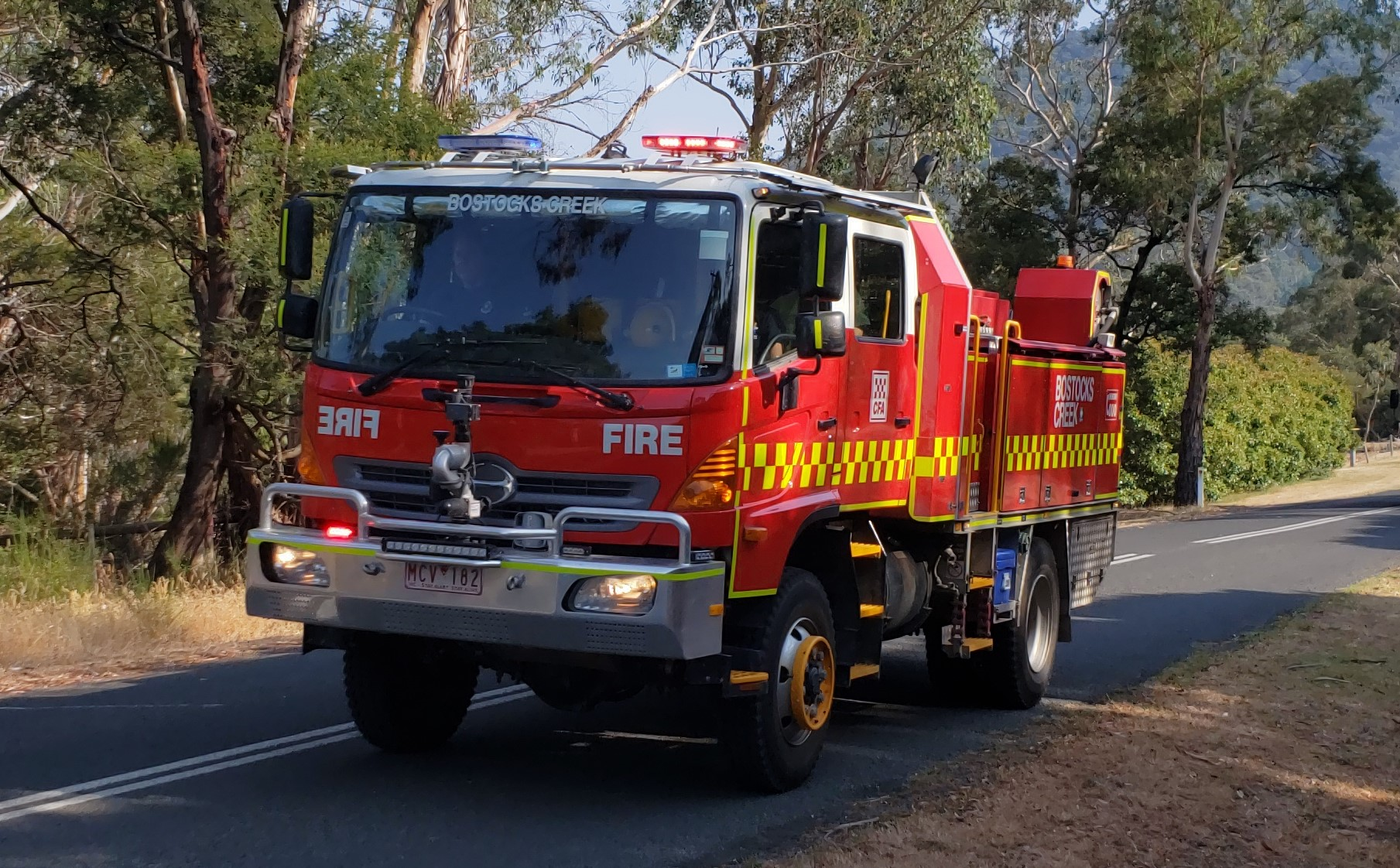 American firefighters on the ground in Melbourne, Australia attend a training session on Australian fire engines. The fire season in Australia has been unprecedented. The United States has sent Department of the Interior (DOI) and U.S. Forest Service (USFS) wildfire personnel to assist with ongoing wildfire suppression efforts in Australia. Based on requests from the Australian Fire and Emergency Service Authorities Council, the U.S. has intermittently deployed wildland USFS and DOI fire personnel throughout December and early January. Credit: National Interagency Fire Center